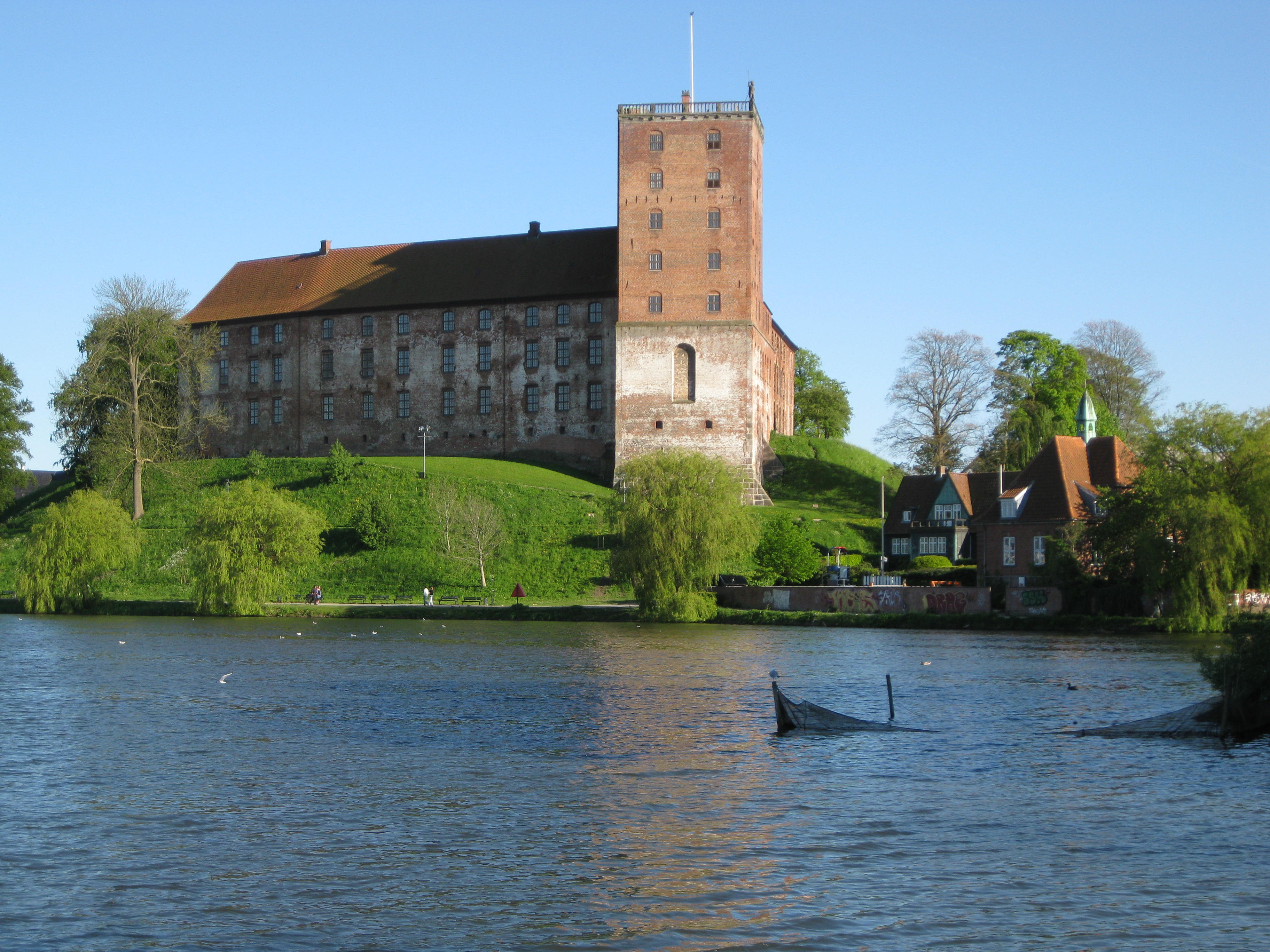 The castle "Koldinghus" in the city of "Kolding". It is located in South-Central Jutland, Denmark.